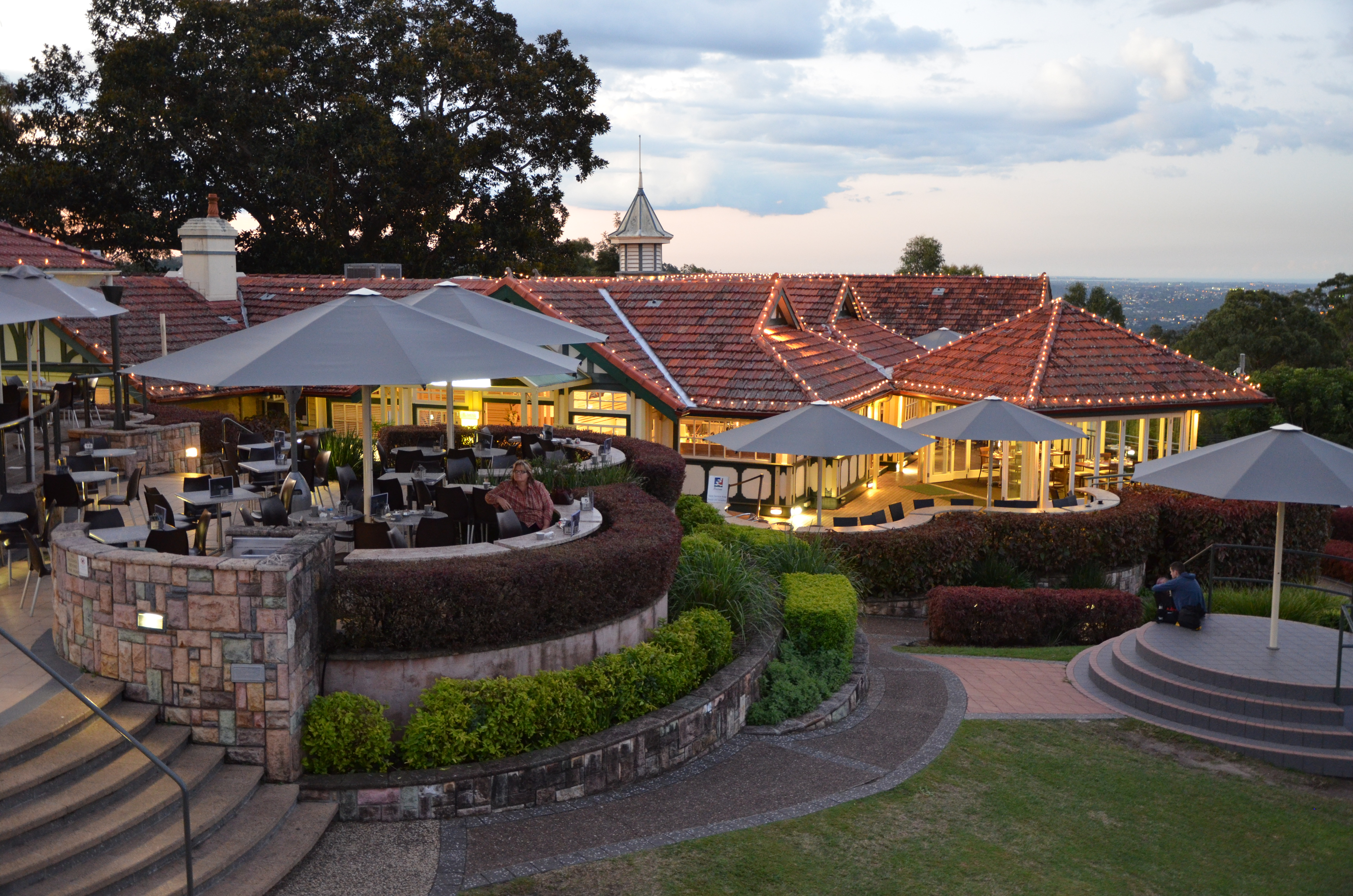 Kiosk at the Mt Coot-tha Lookout area.